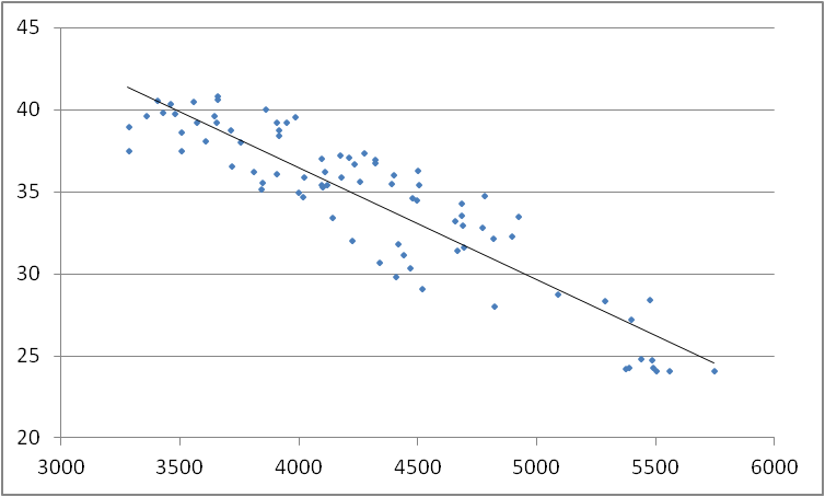 Tour de France - average velocity of the Tour winner plotted against the total distance of the Tour de France since 1919